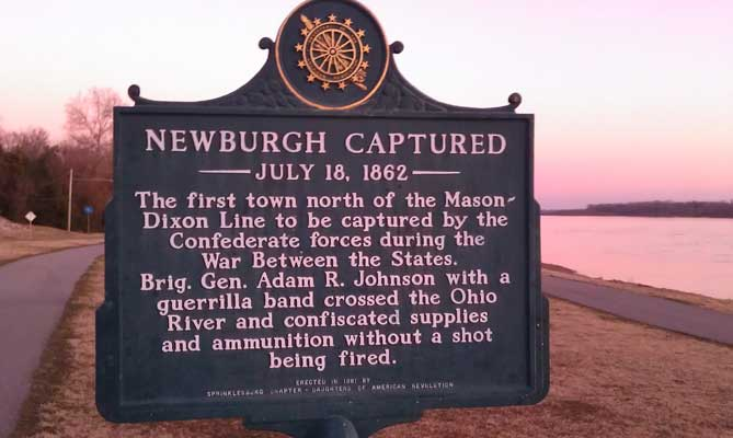 About the Civil War era capture of Newburgh, Ind. in 1862 by Confederate Brig. Gen. Adam R. Johnson. Newburgh is east of Evansville, Ind. The sign was posted by the American Daughters of the Revolution.